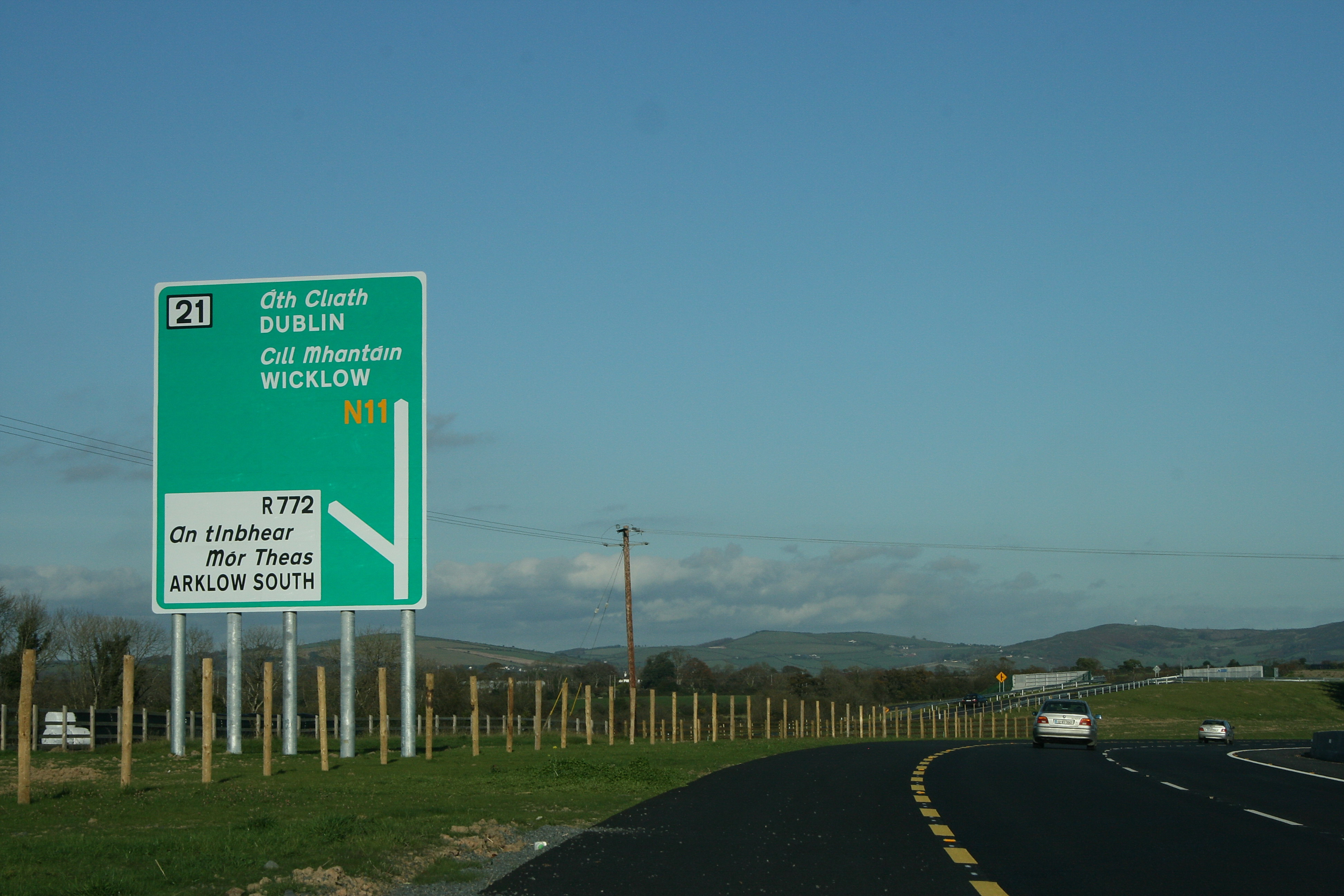 Exit 21 on the N11 national primary route in County Wexford, Ireland. Junction colour symbol is unique!